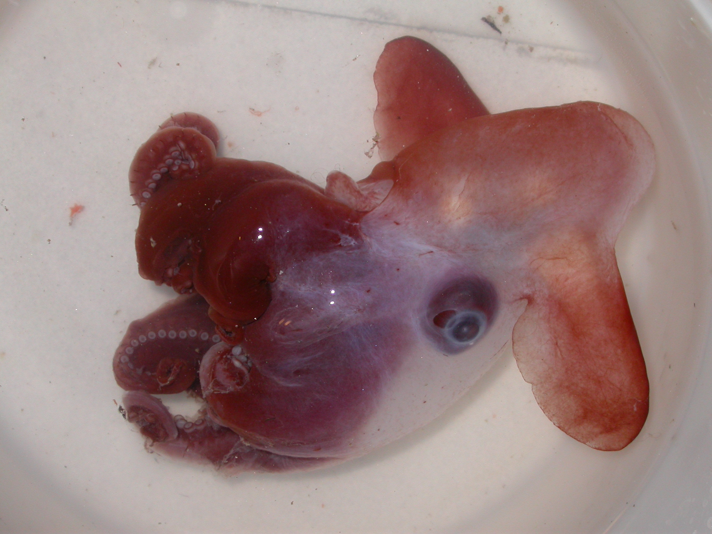 "One of the rare finned octopods known as "Dumbos" collected on the summer 2009 MAR-ECO cruise."